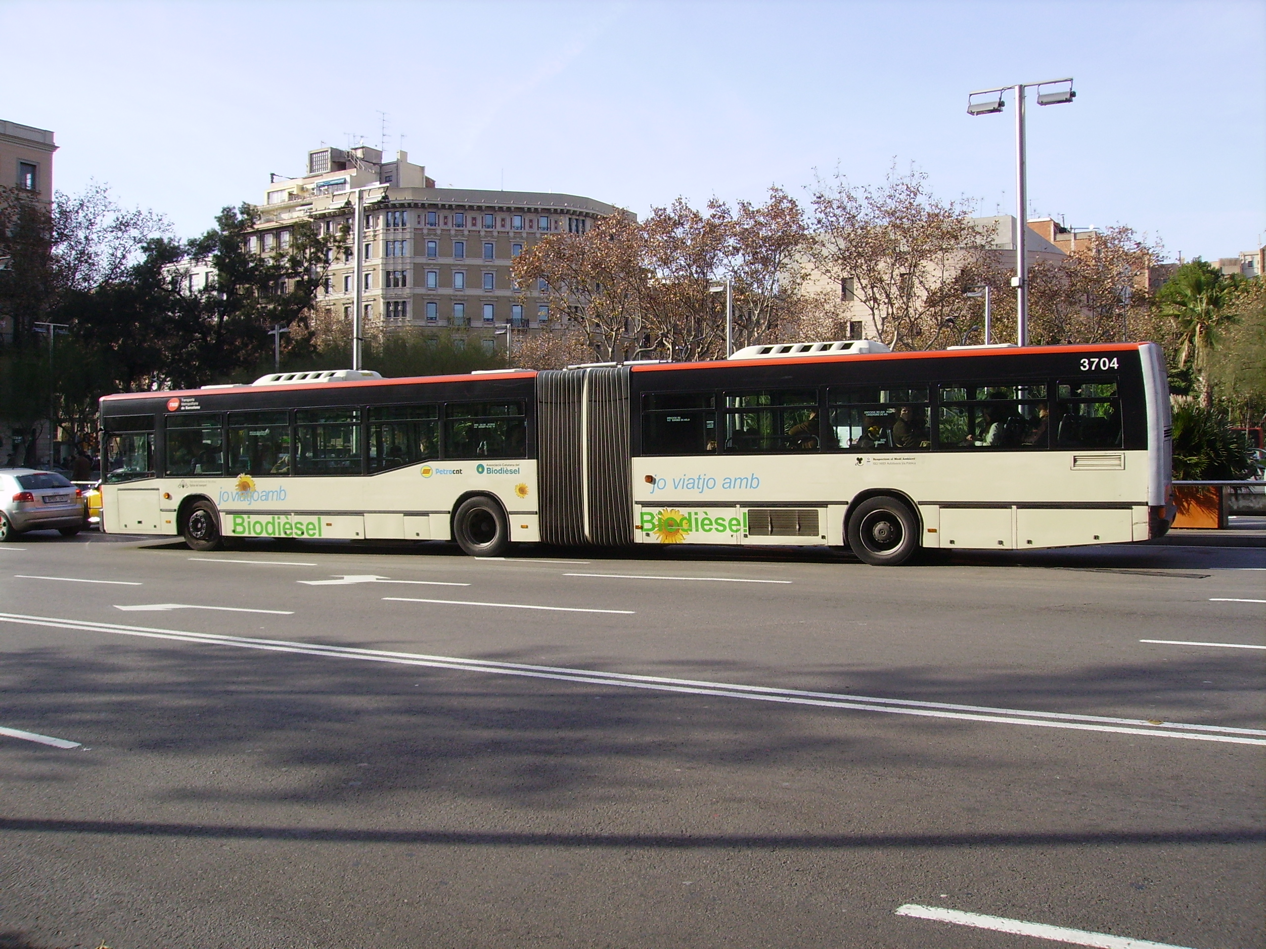 Mercedes-Benz O405GN2/Castrosua CS-40 in Barcelona, Spain. Year built 1997.